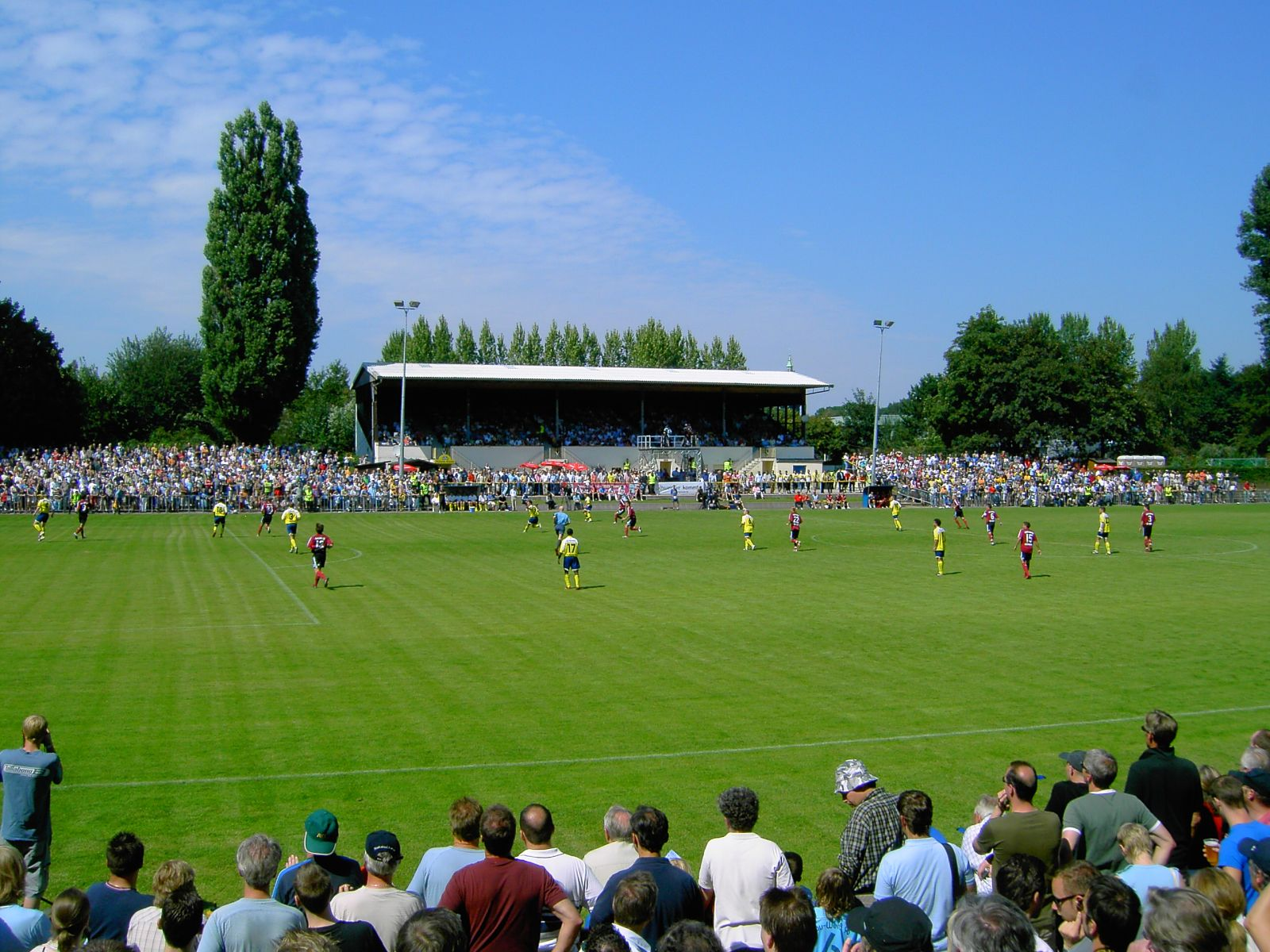 Mainbridge of the Stadium Hoheluft in Hamburg. Homeground of the German soccer club SC Victoria Hamburg. Scene shows the German cup match Victoria vs 1. FC Nürnberg.